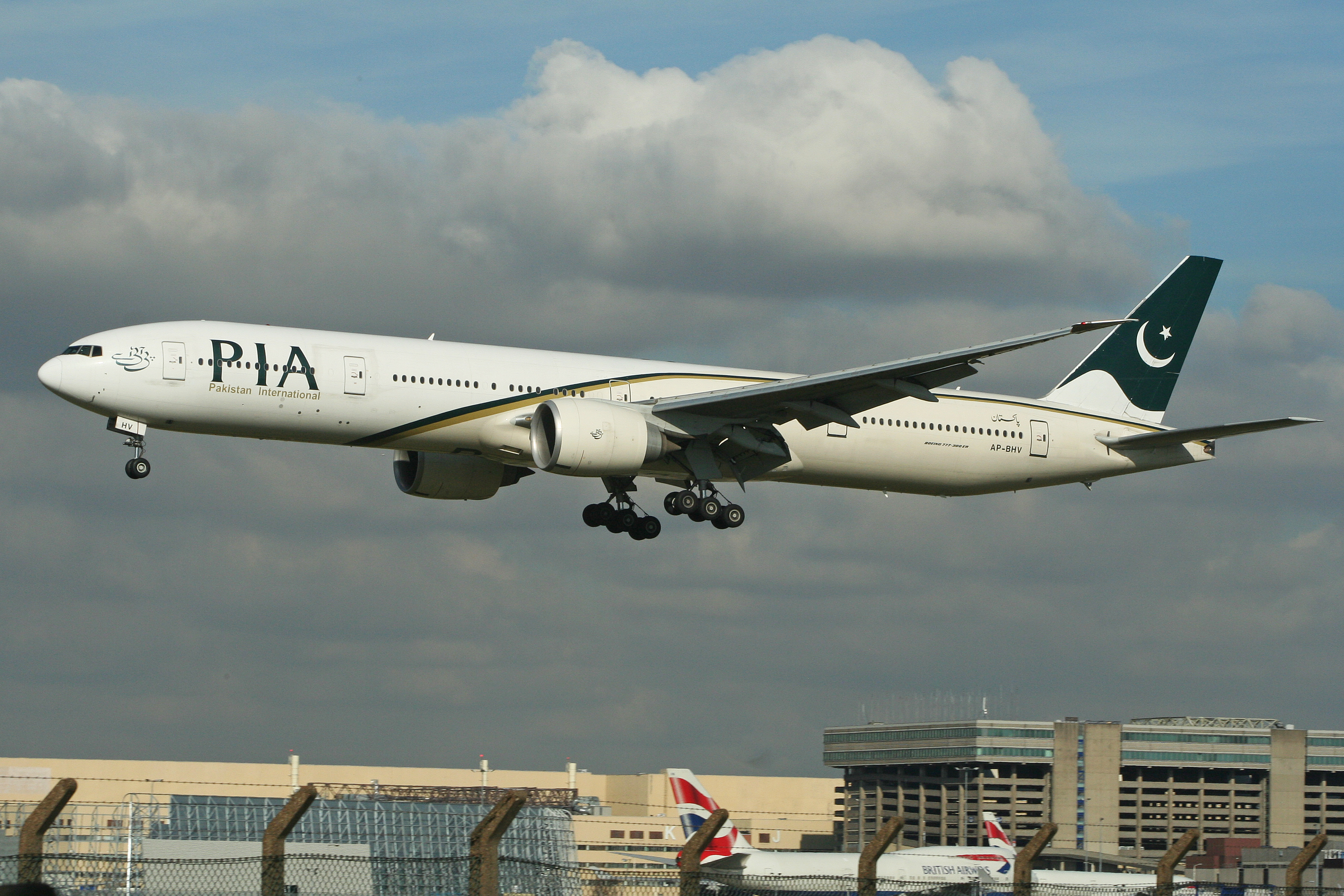 msn 33778, l/n 601. Arriving on flight PK785 from Islamabad. London Heathrow. 26-2-2012